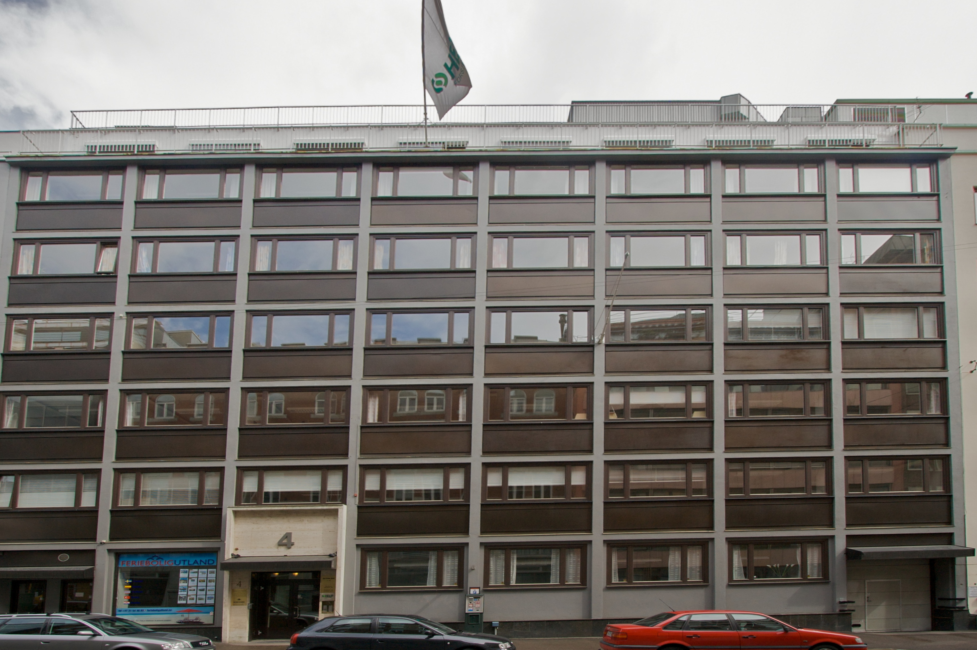 Embassy of the Philippines, Oslo, Norway.